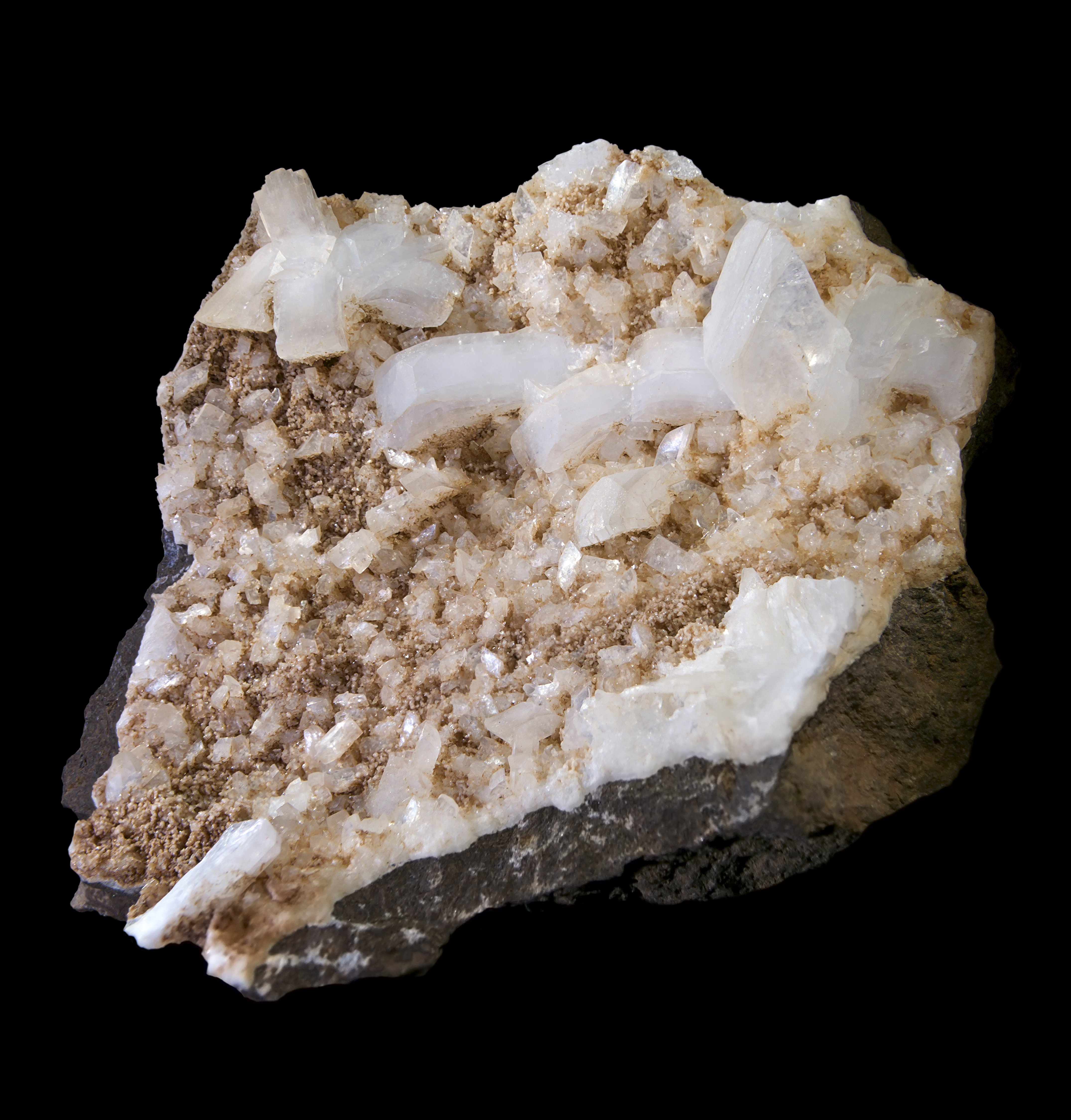 Heulandite Locality: Teigarhorn, Berufjördur, Suður-Múlasýsla, Iceland Size : 6.3x6.1x4.7 cm